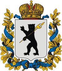 Yaroslavl & Yaroslavl gubernia (Russian empire), coat of arms, 1856-1918